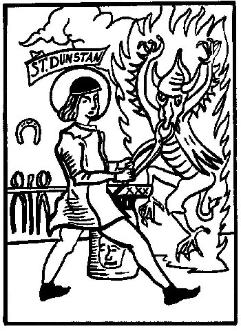 Dunstan and the Devil